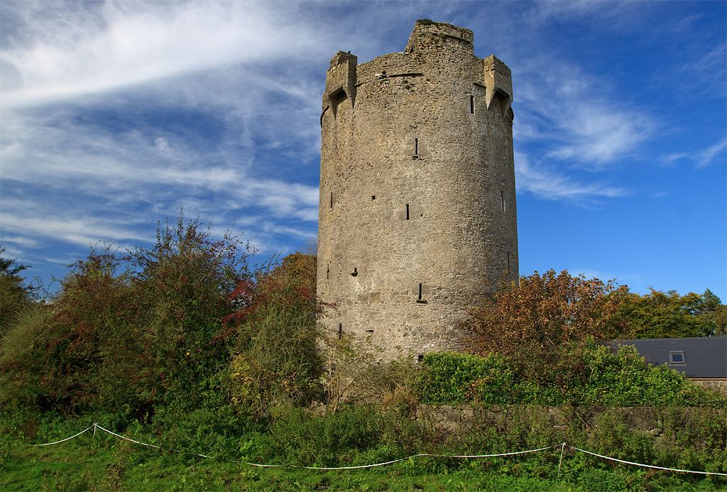 Castles of Munster: Ballynahow, Tipperary To the NW of Thurles is Ballynahow Castle, a C16 circular tower of the Purcells that rises over 50 feet to the wall-walk, off which are four evenly spaced machicolations. The lower rooms of this tower were inhabited as a cottage in the 1840s.